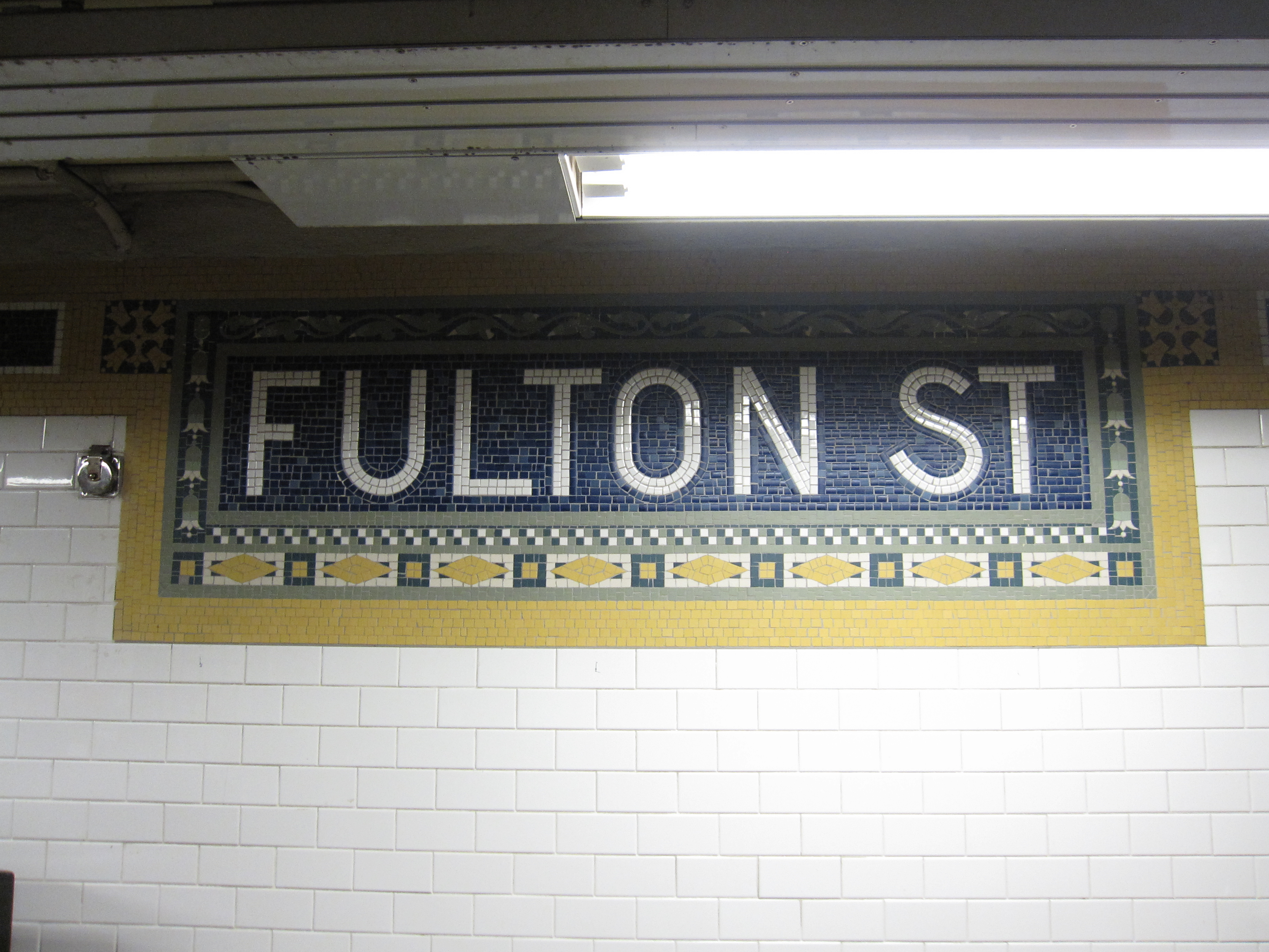 Fulton Street IRT Lexington Avenue Line